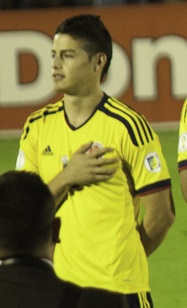 James Rodríguez. Image cropped from original at flickr.